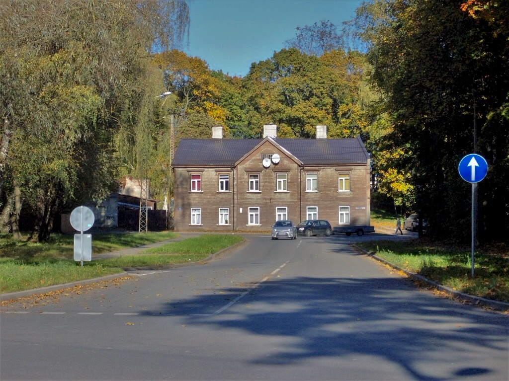 Riga, Mazā Stērstu street.